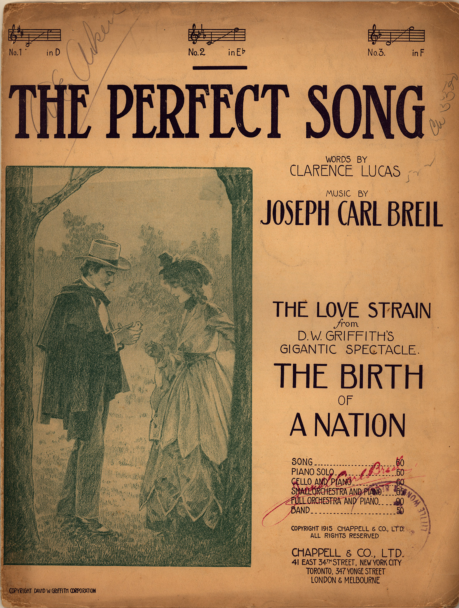 A cover sheet for a 1915 publication of sheet music for "The Perfect Song", a theme from D.W. Griffith's 1915 film The Birth of a Nation. The full document is available at the Duke University Libraries Digital Collections.